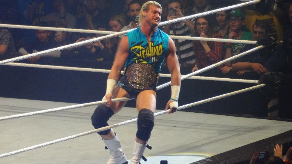 Dolph Ziggler as World Heavyweight Champion at the Wrestlemania Revenge Tour in Belgium (april 2013)